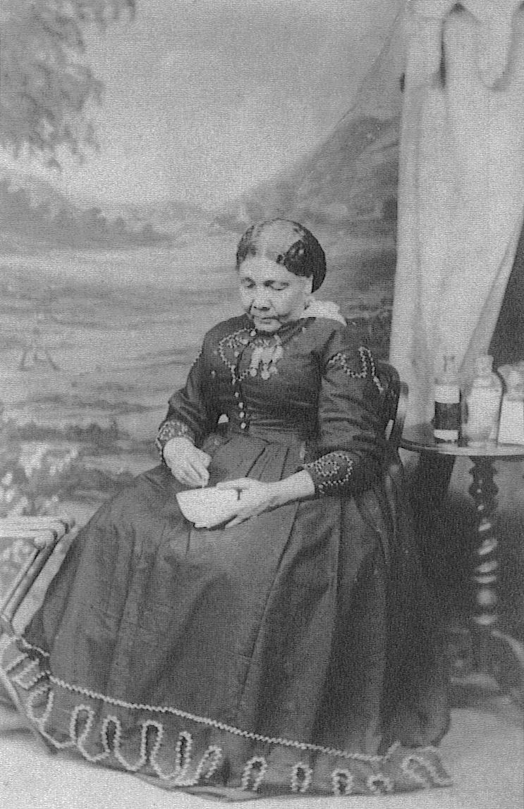 Only known photograph of Mary Seacole (1805-1881), taken c.1873 by Maull & Company in London by an unknown photographer (who probably died before 1936), and so